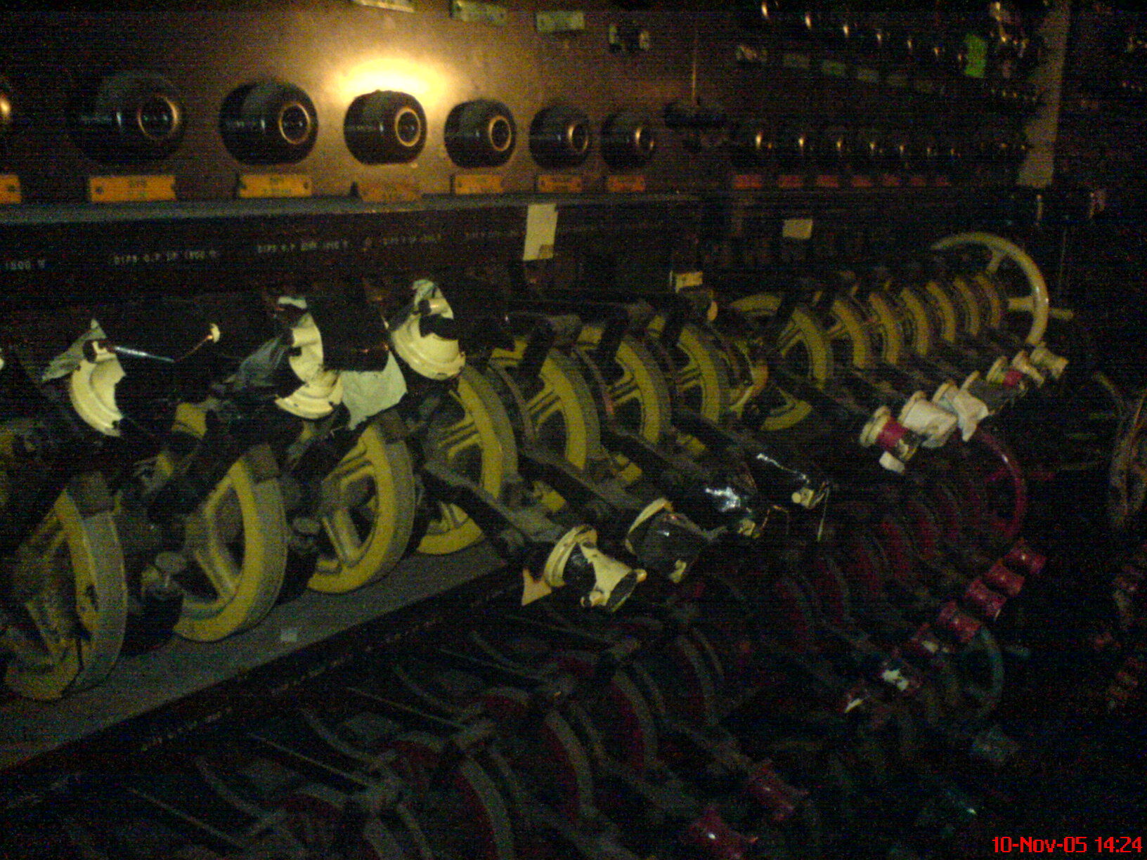 The 'Grandmaster' on a perch Stage Right at the Royal Court This was used to control the lighting up until the 1980's!